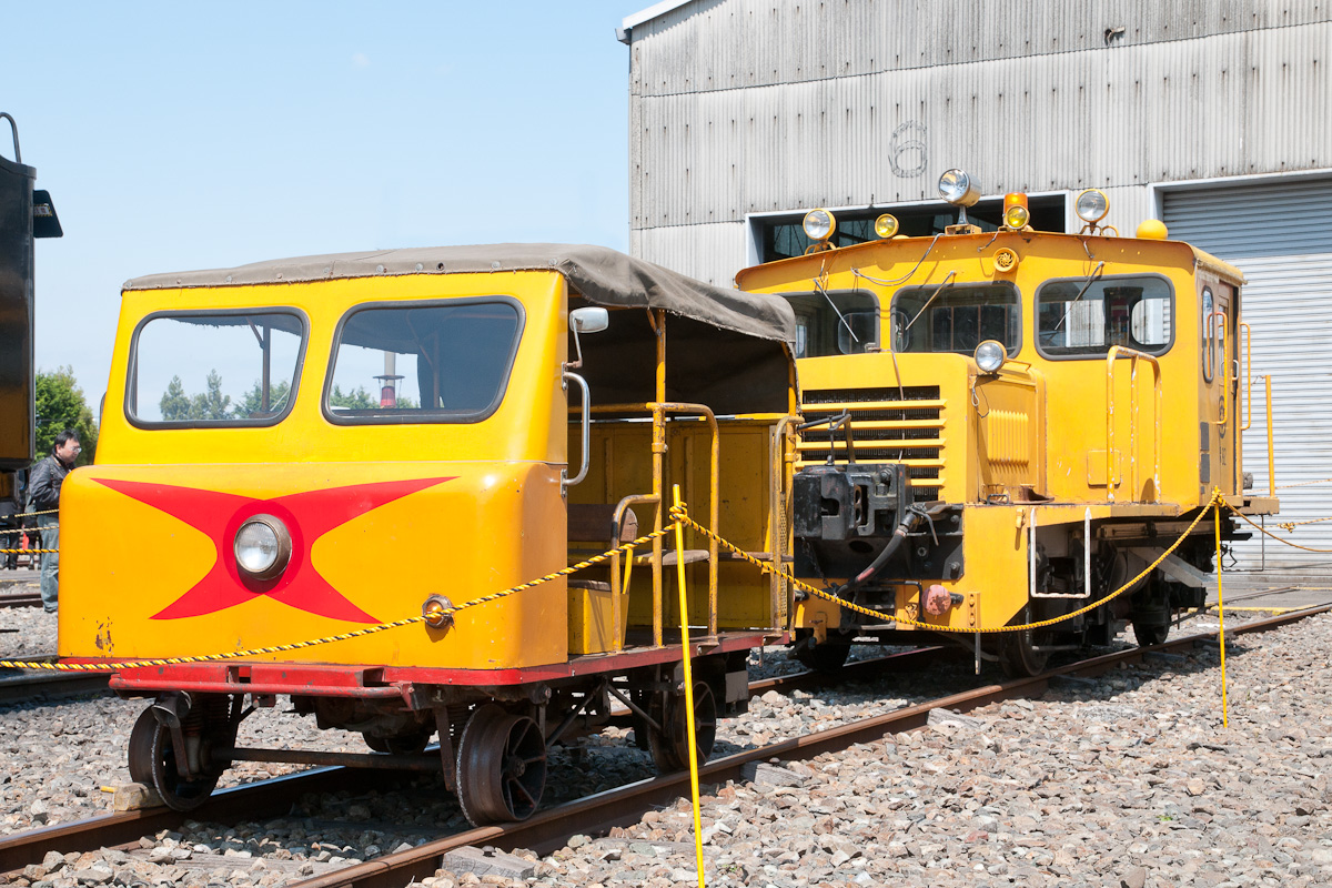 Rail service vehicles of Chichibu Railway.